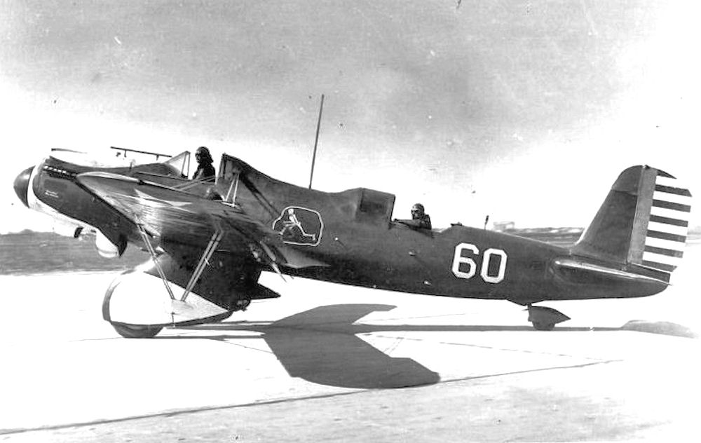 13th Squadron (Attack) - Curtiss Y1A-8 Shrike, Fort Crockett, Texas